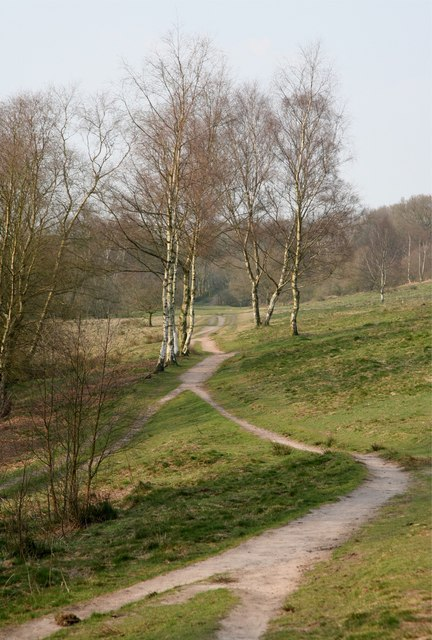 Downs Banks Public footpath through the National Trust Downs Banks, an important stretch of lowland heath.